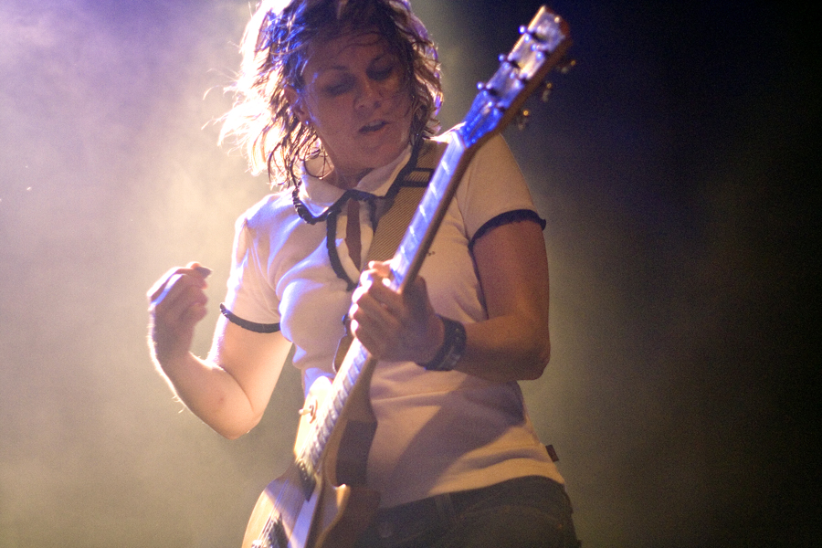 A photograph of American guitarist Ruthie Morris from alternative rock band Magnapop performing at Het Depot in Leuven, Belgium on 2006-04-21